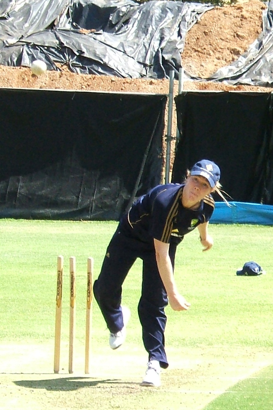 Named person engaging in named action at Adelaide Oval nets/training ground